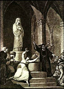 Elizabeth Barton in trance